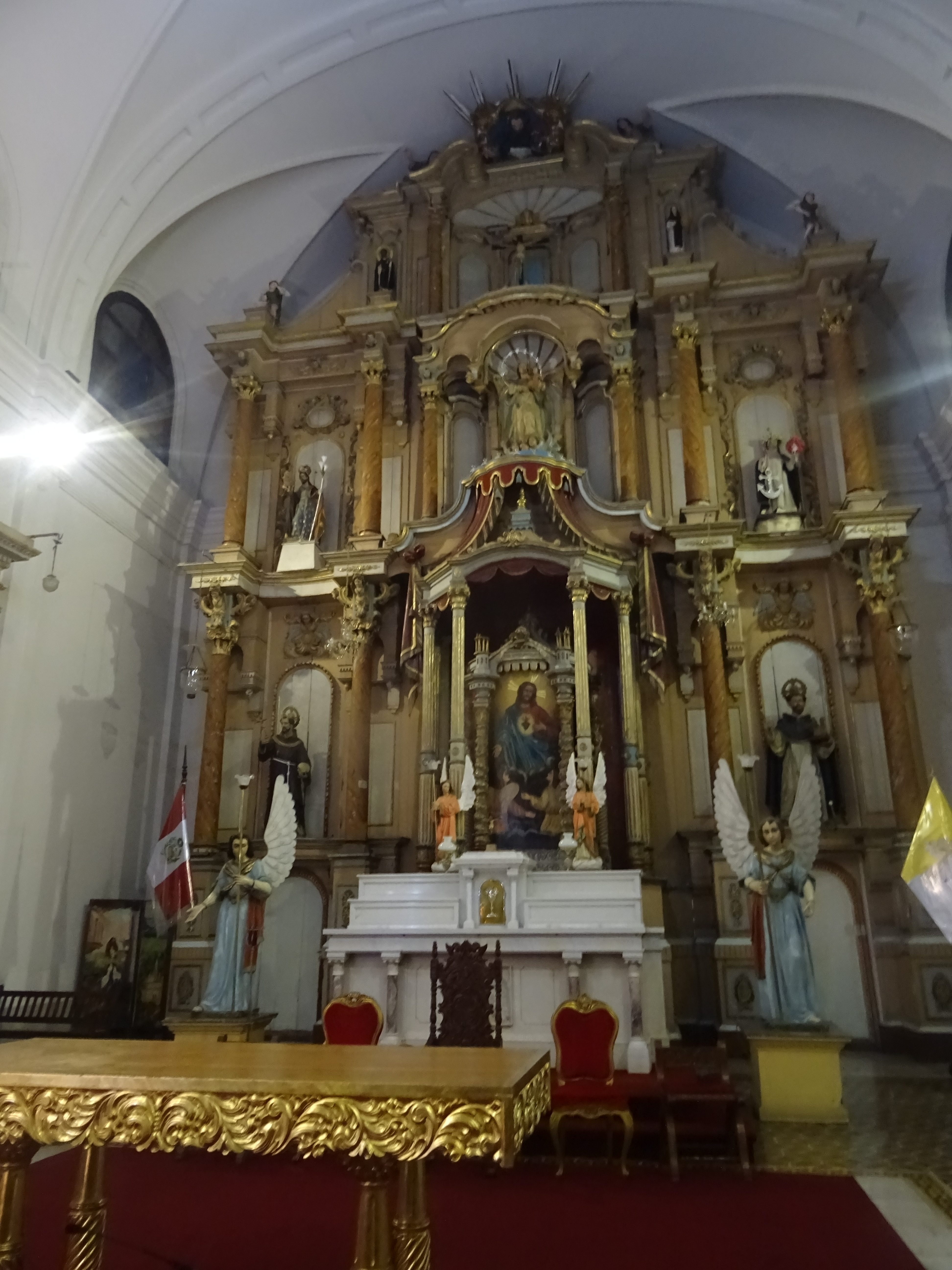 Main altar in St. Clare of Assisi church in Lima-Peru.